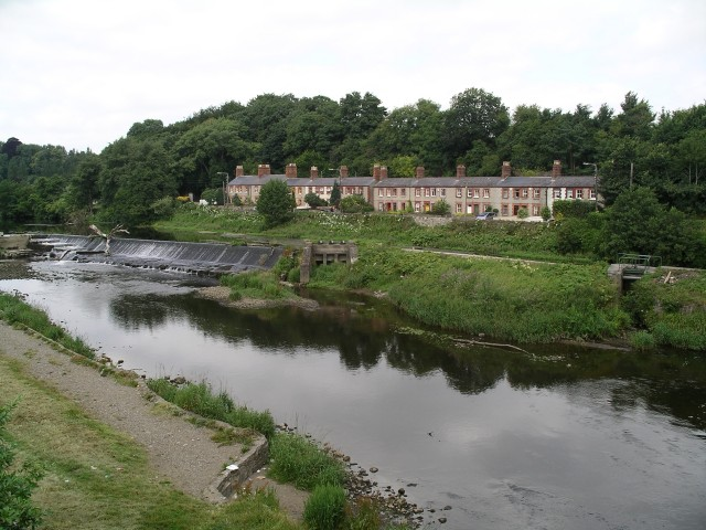 Lucan Weir from Lucan Bridge. Weir on the River Liffey in Lucan, Co. Dublin.